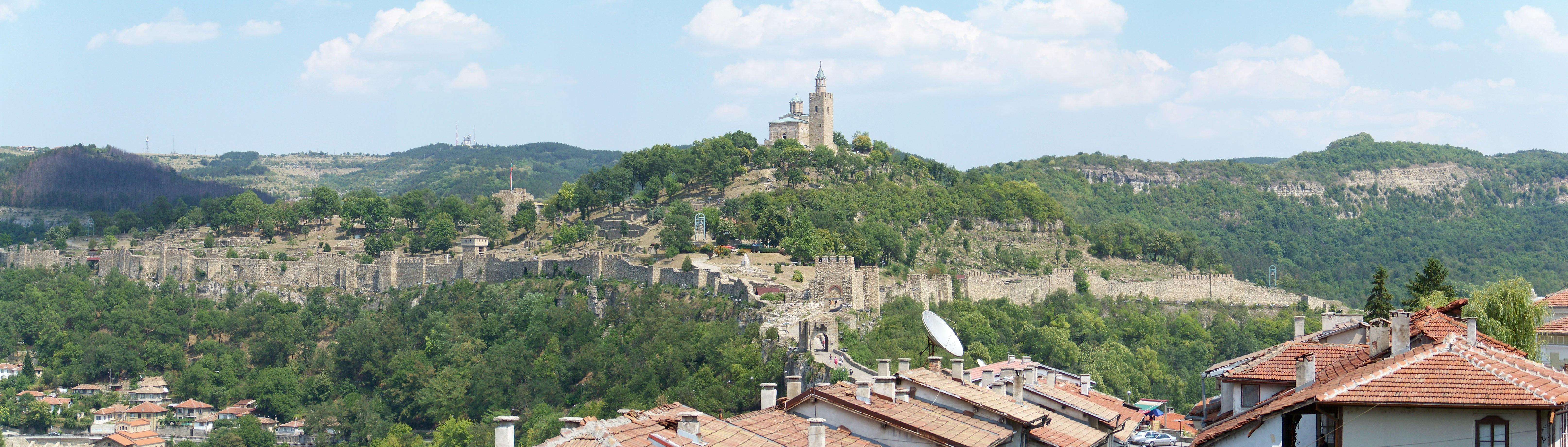 Tsarevets